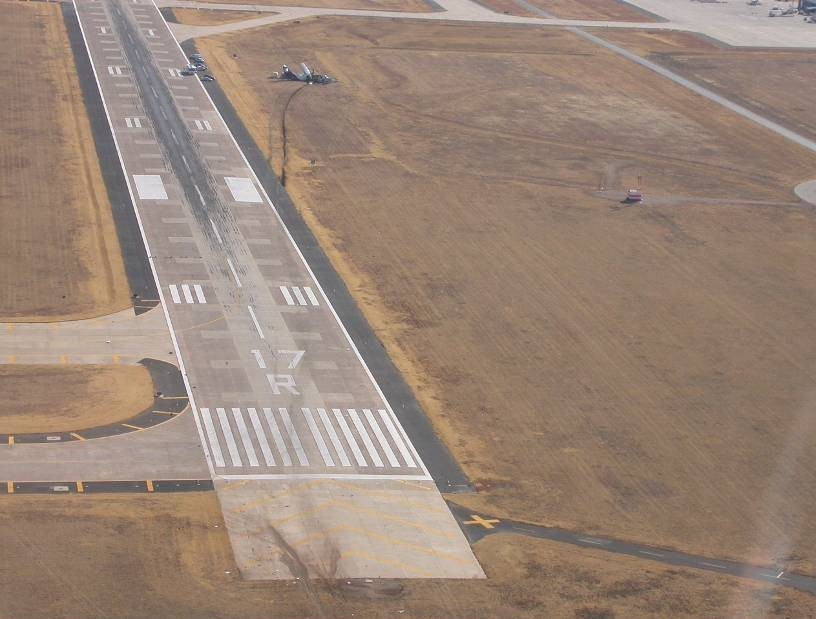 Empire Airlines Flight 8284（N902FX） wreckage3